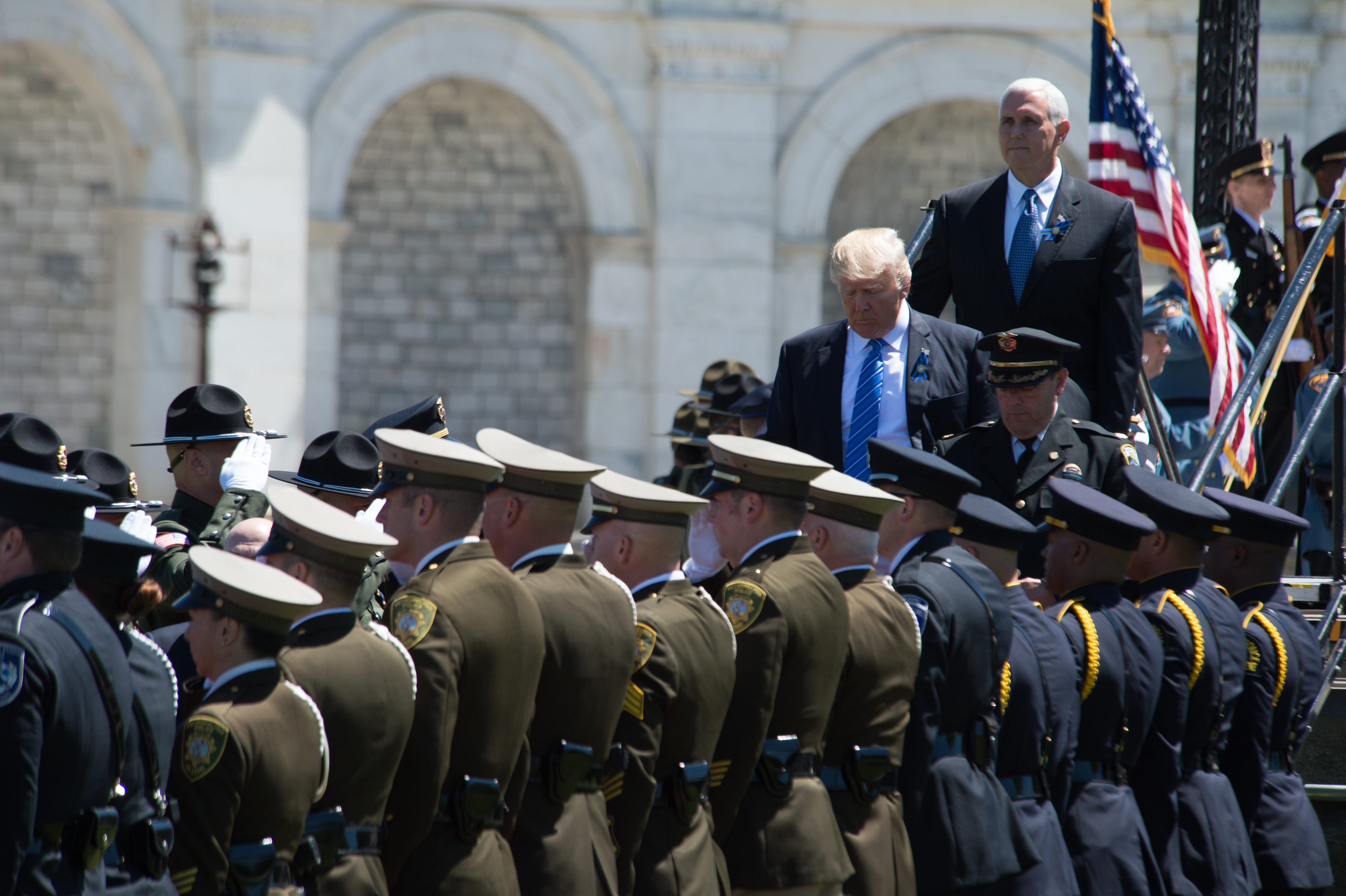 Washington, D.C., 15, May 2017. The 36th Annual National Peace Officers' Memorial Service held on the West Front of the United States Capitol in Washington, D.C., honored law enforcement officers killed in the line of duty. Speakers included President Donald Trump and Vice President Mike Pence and guests on the dais included the Attorney General Jeff Sessions and the Director the U.S. Marshals Service David Harlow. During the ceremony family of fallen officers placed carnations for the fallen forming a star and received a medal for the officer’s service. Photo by: Shane T. McCoy / US Marshals